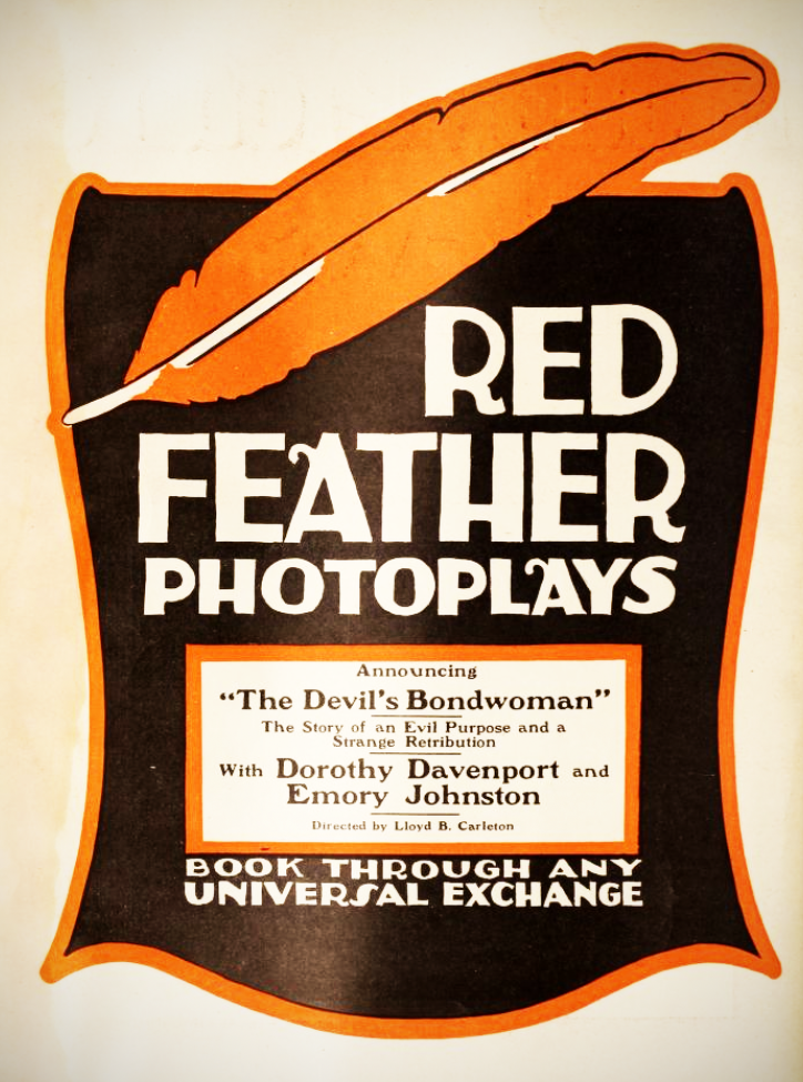 Motion Picture News Magazine Ad